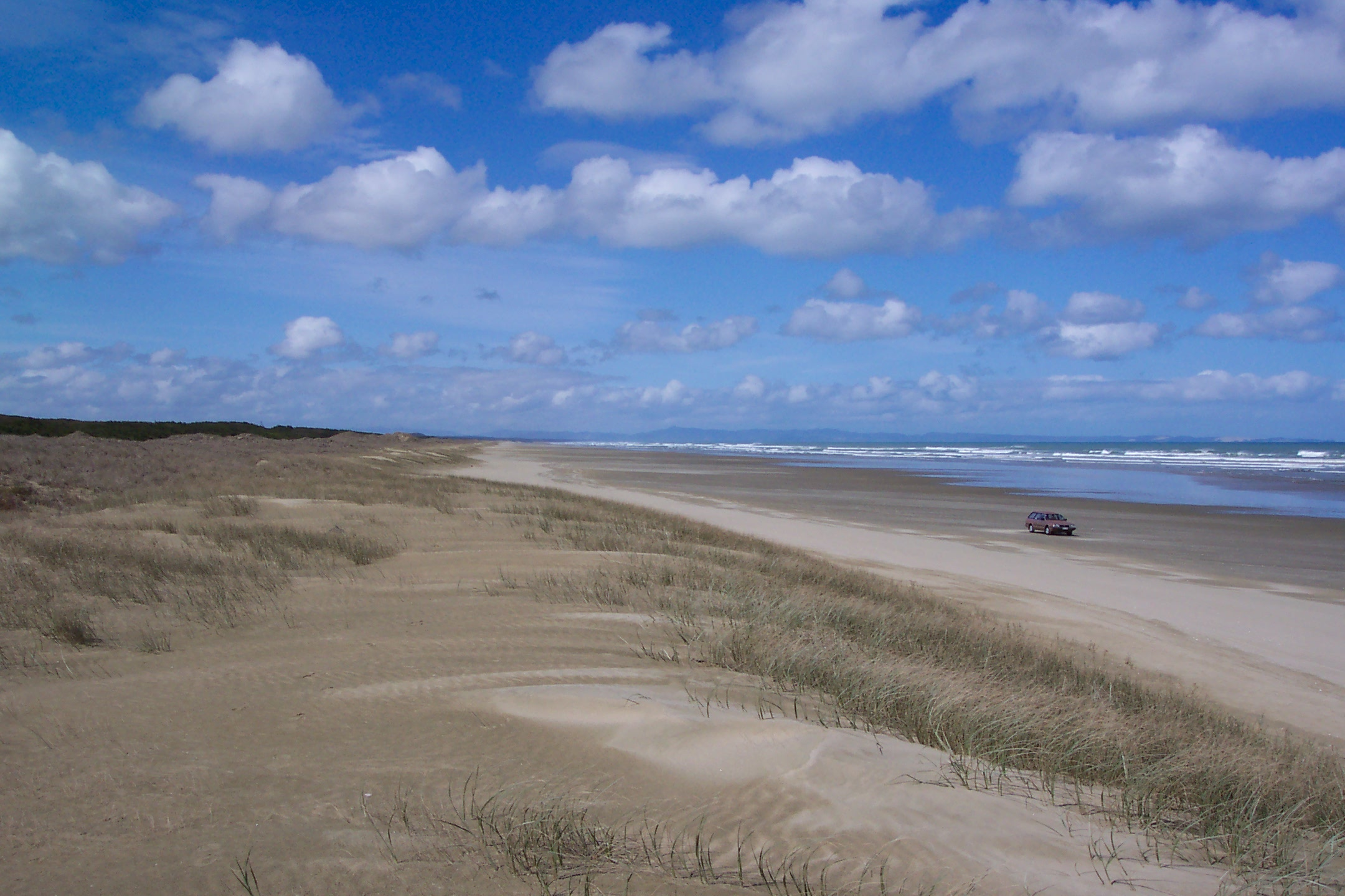 Photo taken by Steffen Hillebrand at the Ninety Mile Beach, Northland, NZ (Sept. '04)